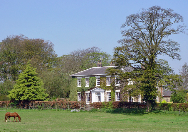 Wauldby Manor Farm, Wauldby, East Riding of Yorkshire, England.The photograph was taken from the Wolds Way which runs along the eastern edge of the enclosure.